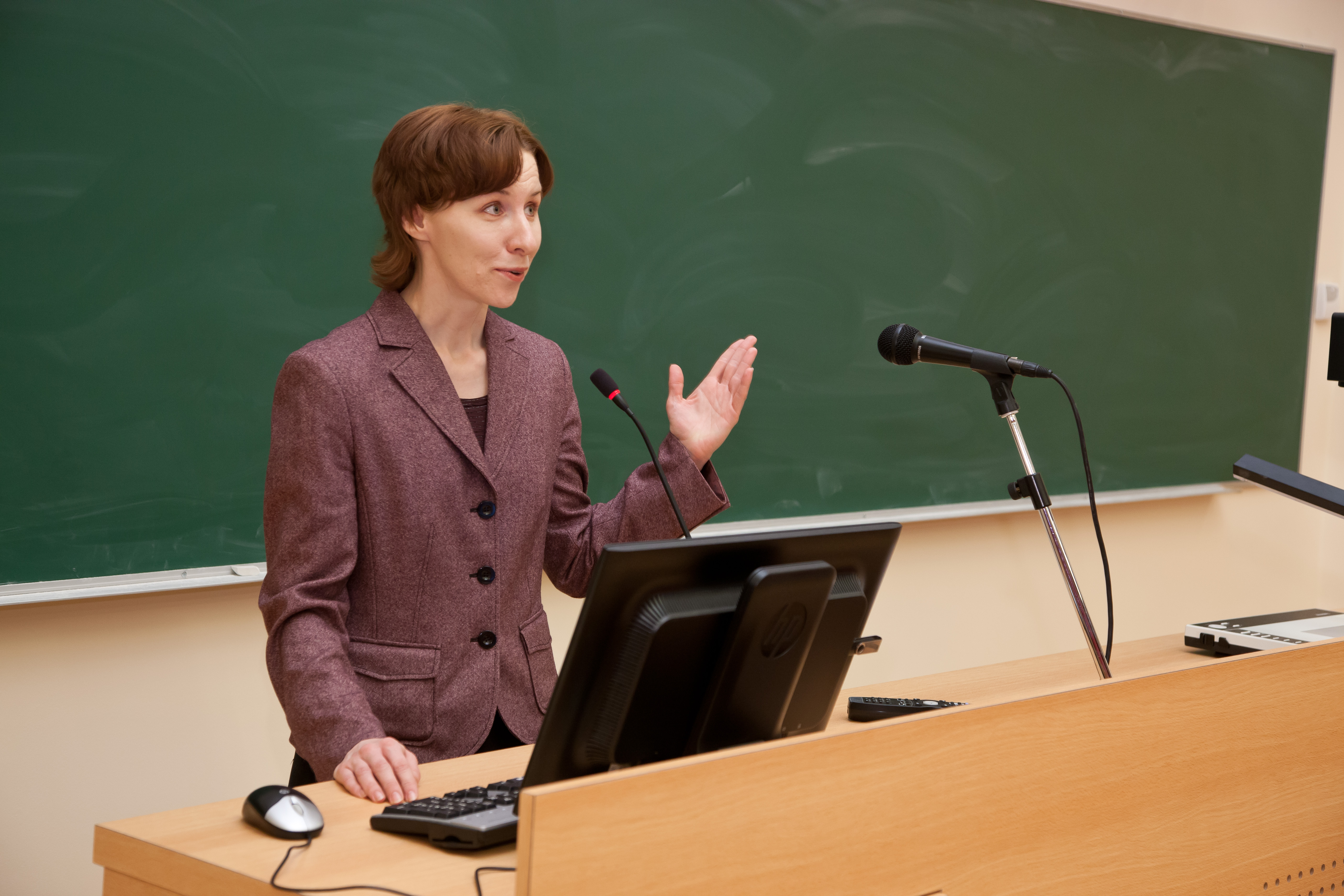 Helle Pullmann on the 21st of March (2012) at the University of Tartu Gifted and Talented Development Center's event